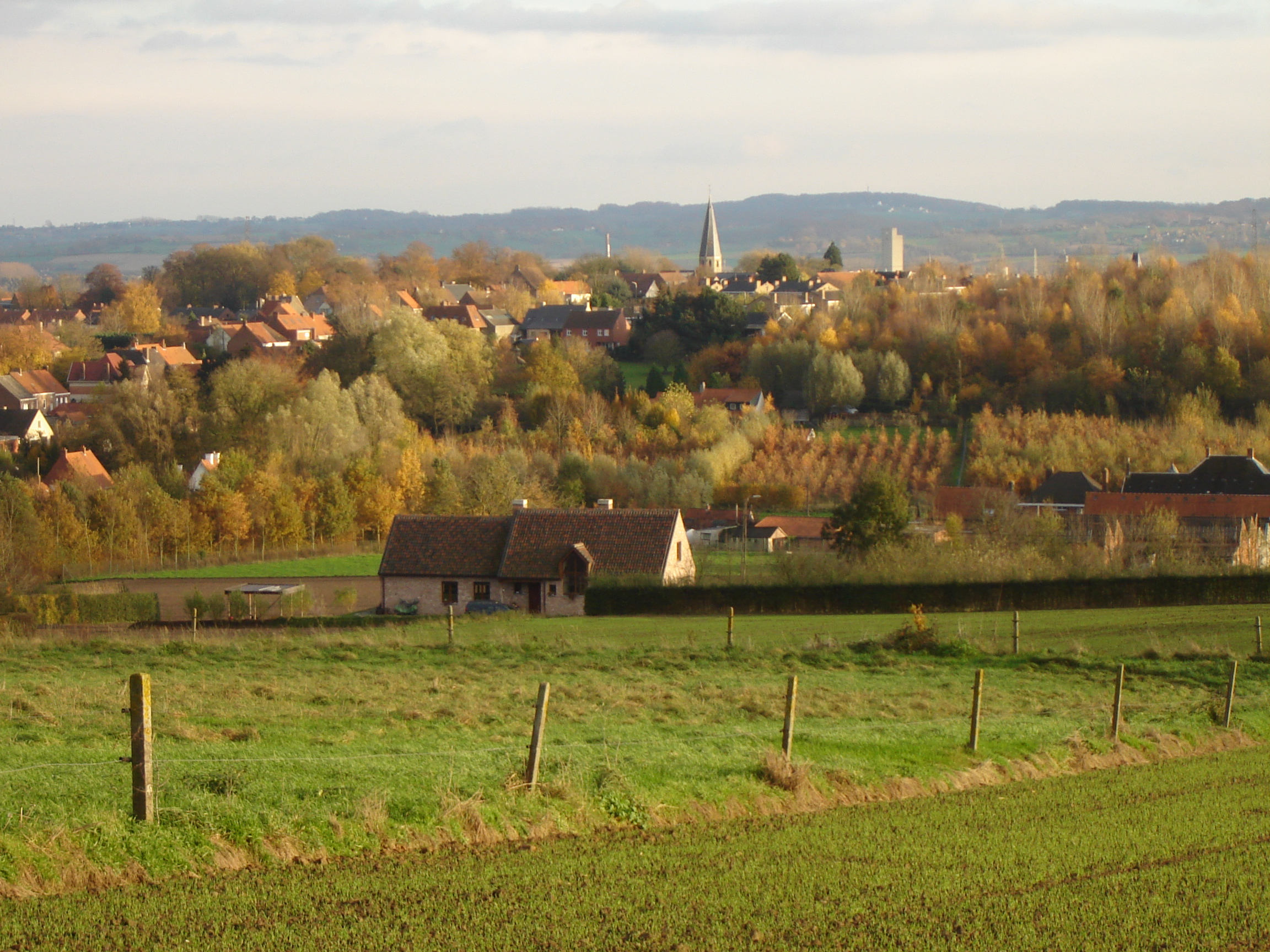 Village of Tiegem and landscape, as seen from Tiegen Hill. Tiegem, Anzegem, West Flanders, Belgium